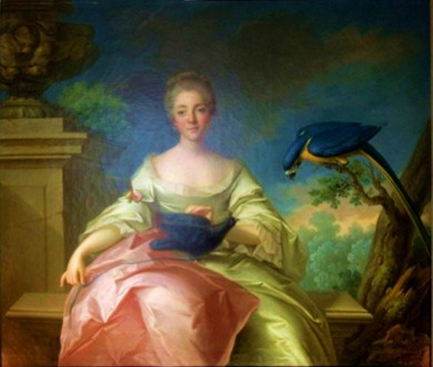 Portrait of Louise Dupin.